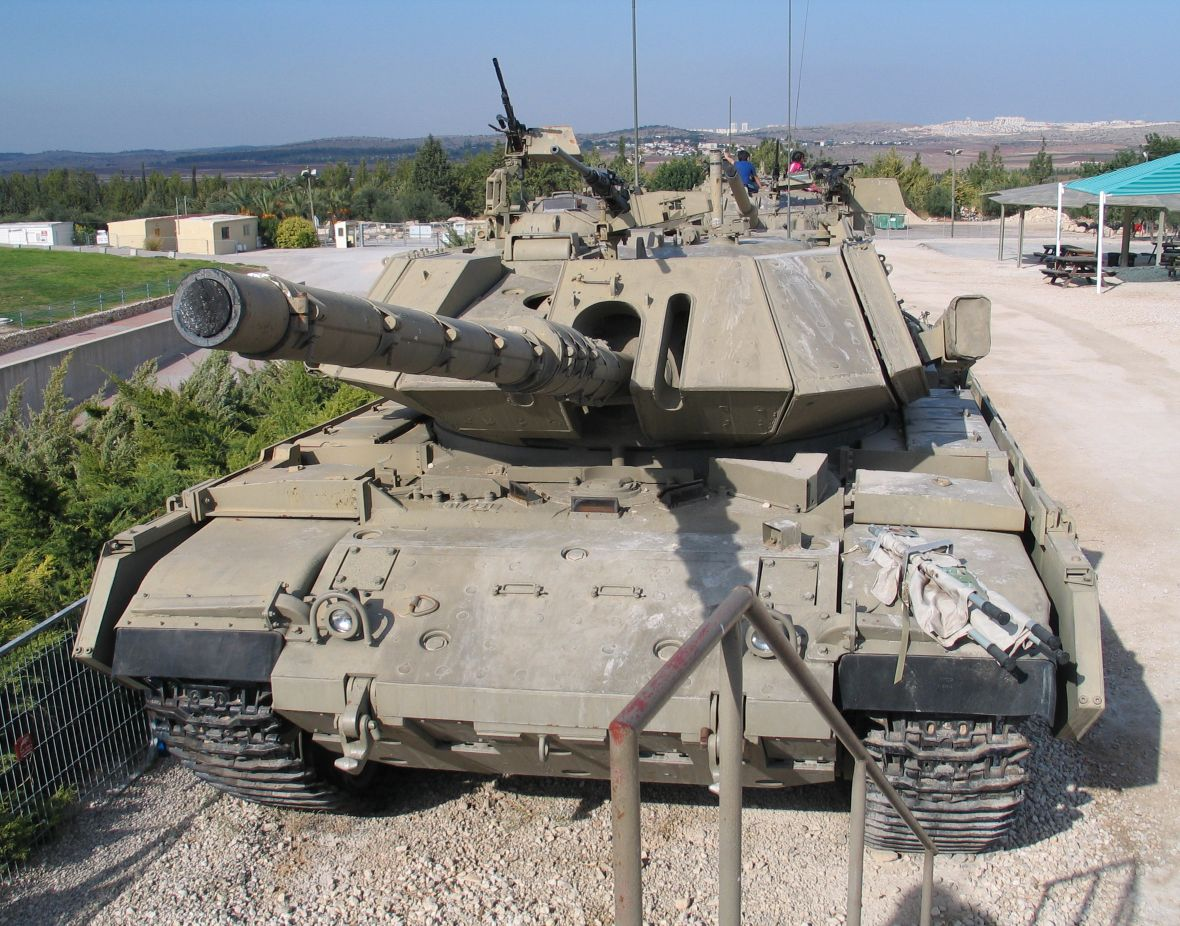 Description: Magach 7 tank in Yad la-Shiryon Museum, Israel. 2005. Source: Photo by me, User:Bukvoed.